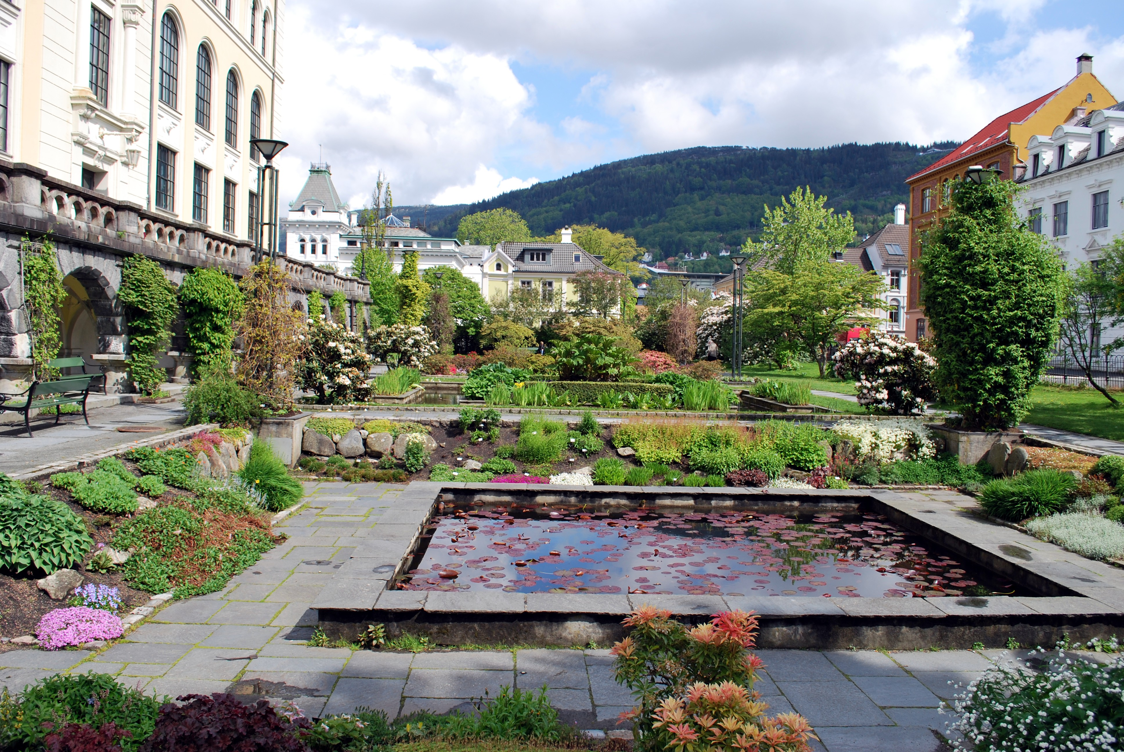 Botanical garden, Muséhagen, University of Bergen.